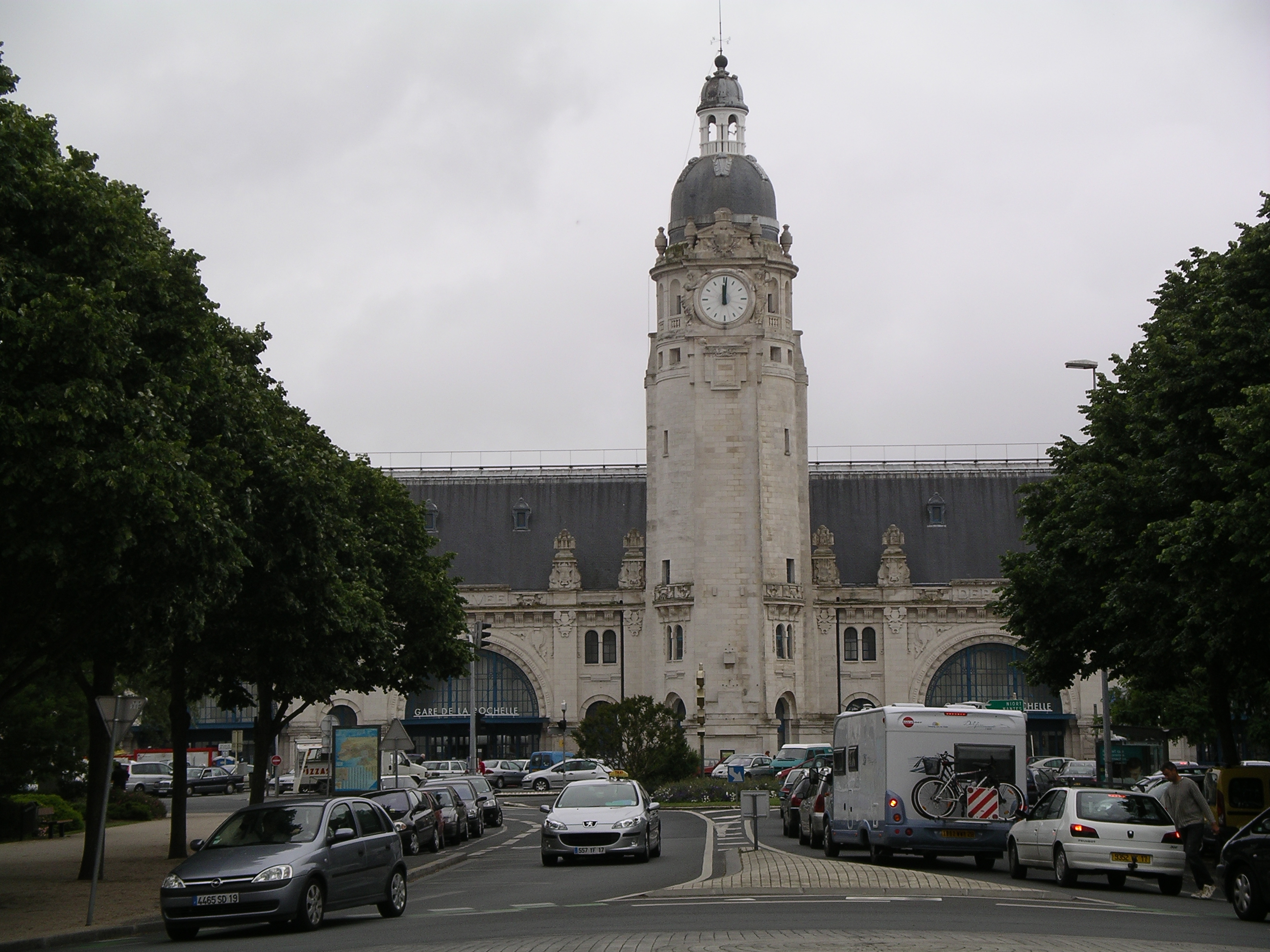 Railway station Gare de La Rochelle in France